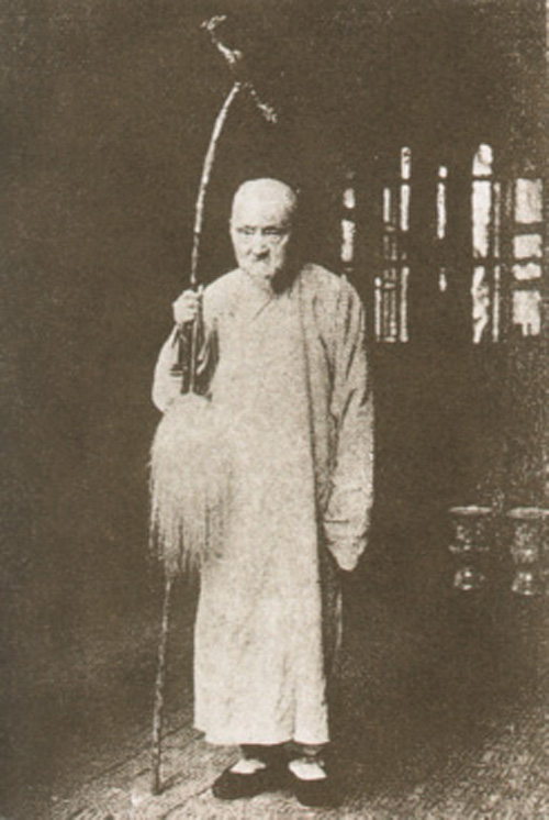 Yu Yue, scholar of the Qing Dynasty.